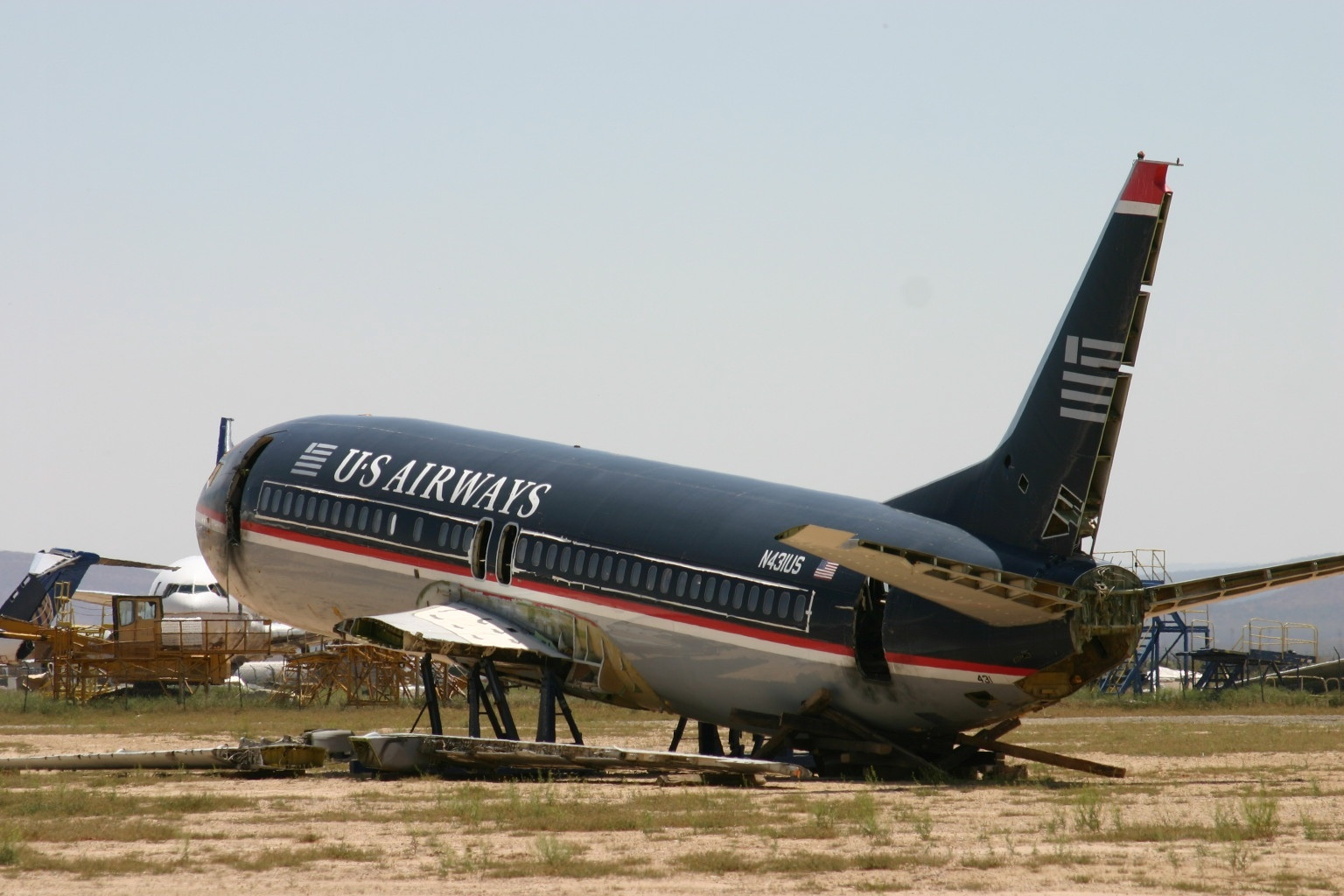 At Mojave